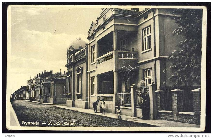 street in cuprija